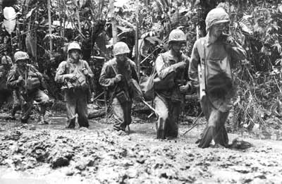 Marines from 3rd Platoon, Kilo Company, 3rd Battalion 3rd Marine Regiment on Bougainville in 1943. From Right to Left: John Myles, Thomas DeFeudis, unknown, Frank Dugo, unknown". Source: Joseph R. Goddard, USMC (Ret) Photograph taken by CPL. Angelo M. Dugo USMC Original Caption: "DEEP, SLIMY MUD characterized the trails and made infantry progress difficult." Source Original Caption: "Just getting to your assigned position meant slow, tiring slogging though endless mud." Source Original Caption: "Marines trudge forward through calf–deep mud on the Numa Numa Trail, Bougainville—November 1943". Source